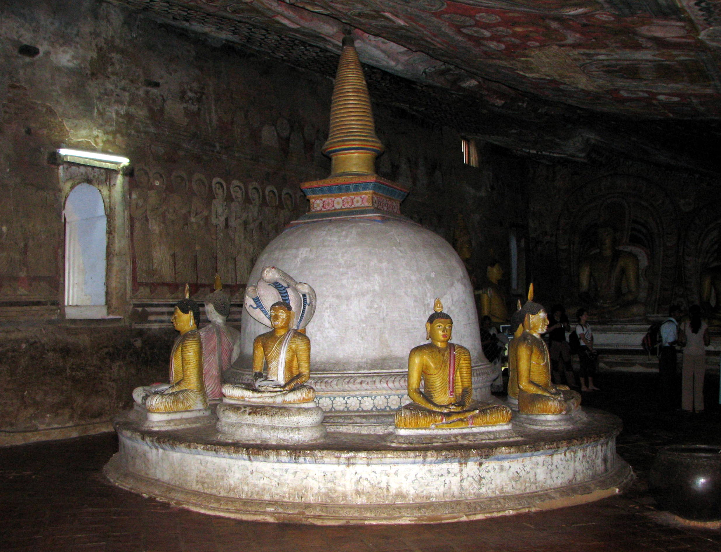 Buddha statues and stupa in Dambulla cave temple, Sri Lanka